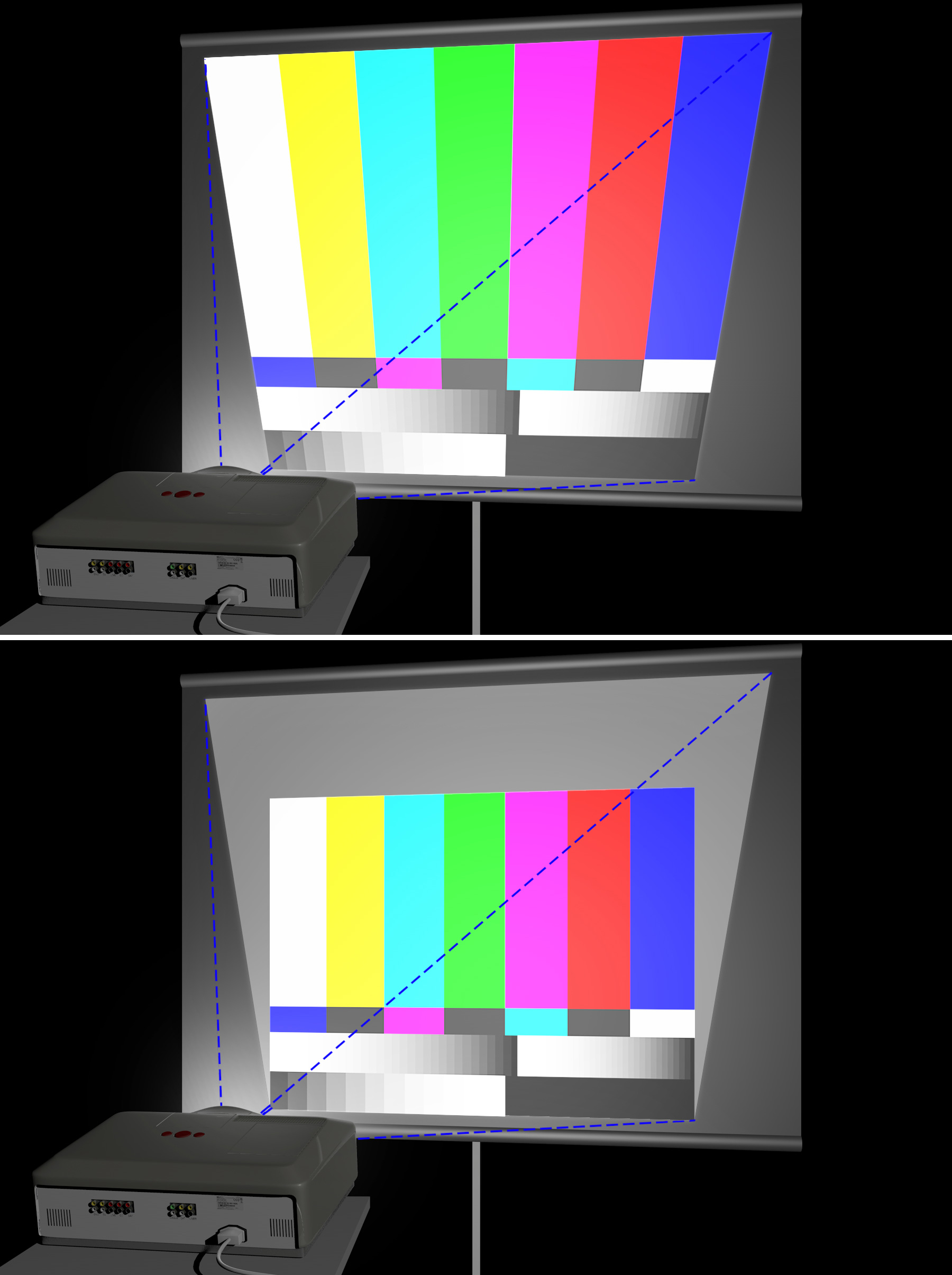 video-projection: effect of keystone-correction